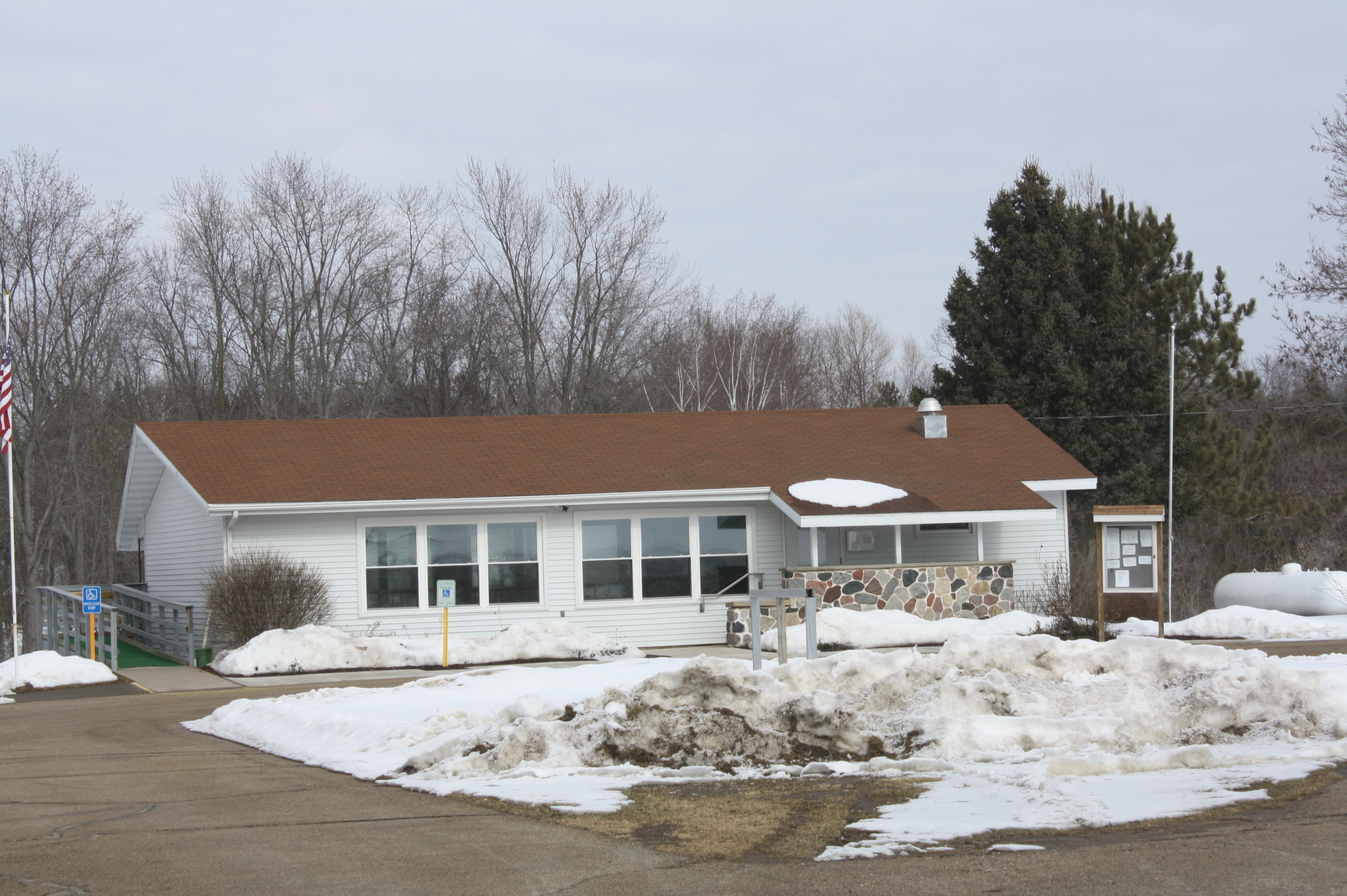 The town hall for the town of Grant in Shawano County, Wisconsin at the west edge of Caroline, Wisconsin.